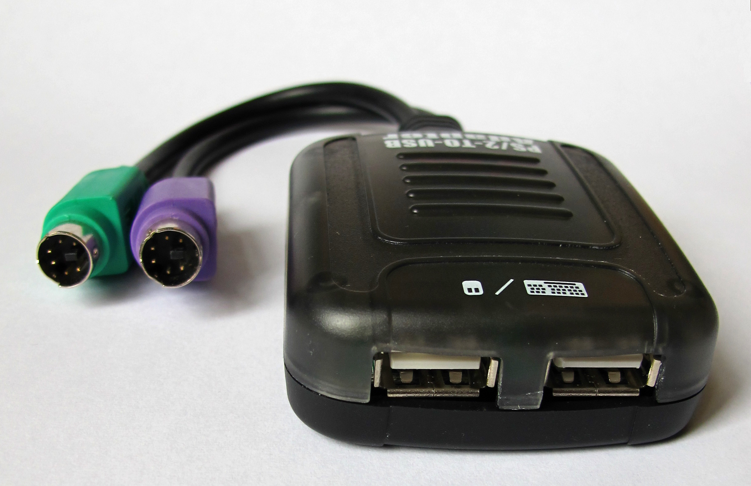 Active Dual-USB (USB-Keyboard and USB-Mouse) to PS/2 Adapter